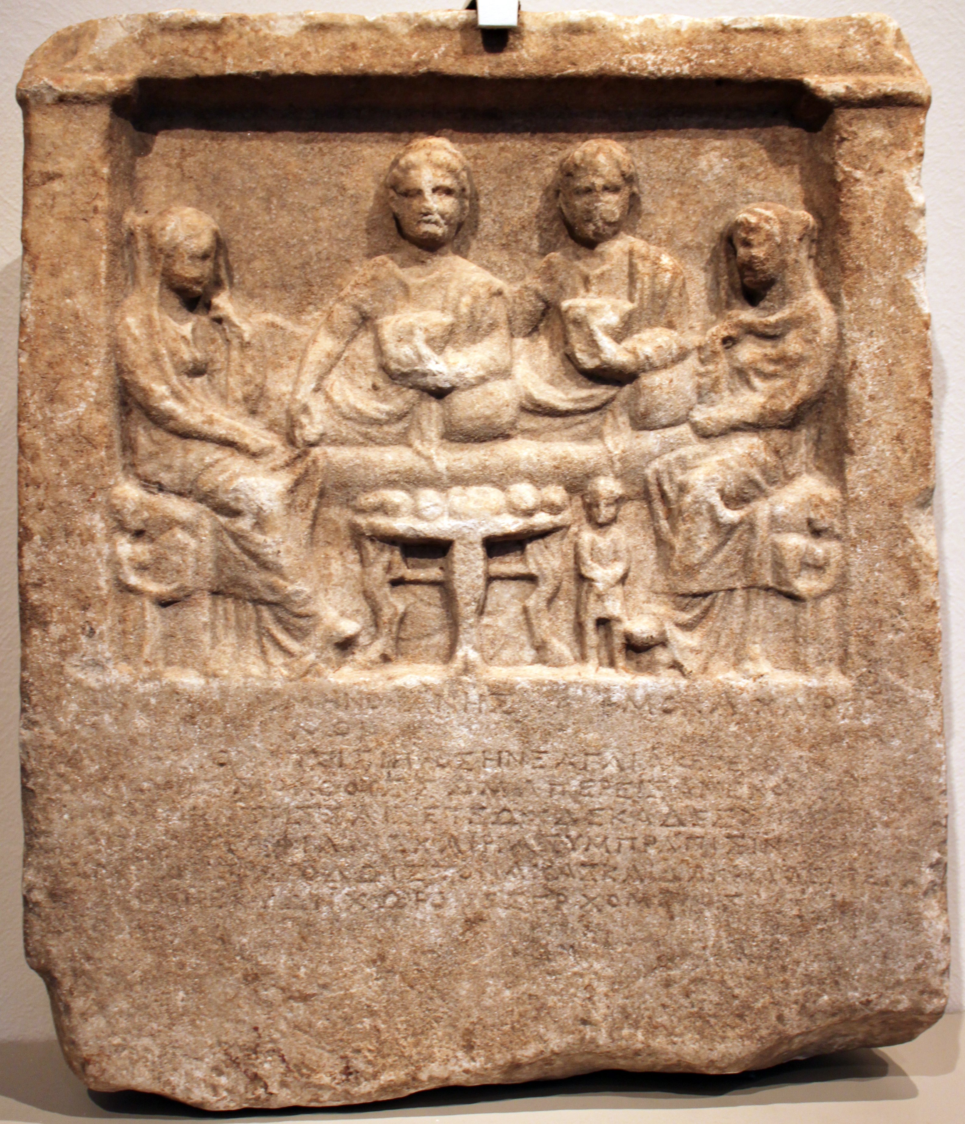 Funerary relief of Menophanes; near Miletopolis in Mysia (Turkey); 1rst century BC Altes Museum Native nameAltes MuseumLocationBerlinCoordinates52° 31′ 10″ N, 13° 23′ 54″ E Established1828Website control VIAF: 202689698 LCCN: n83197241 GND: 4506837-9 WorldCat Section: Life and Death in Rome, Sk 834